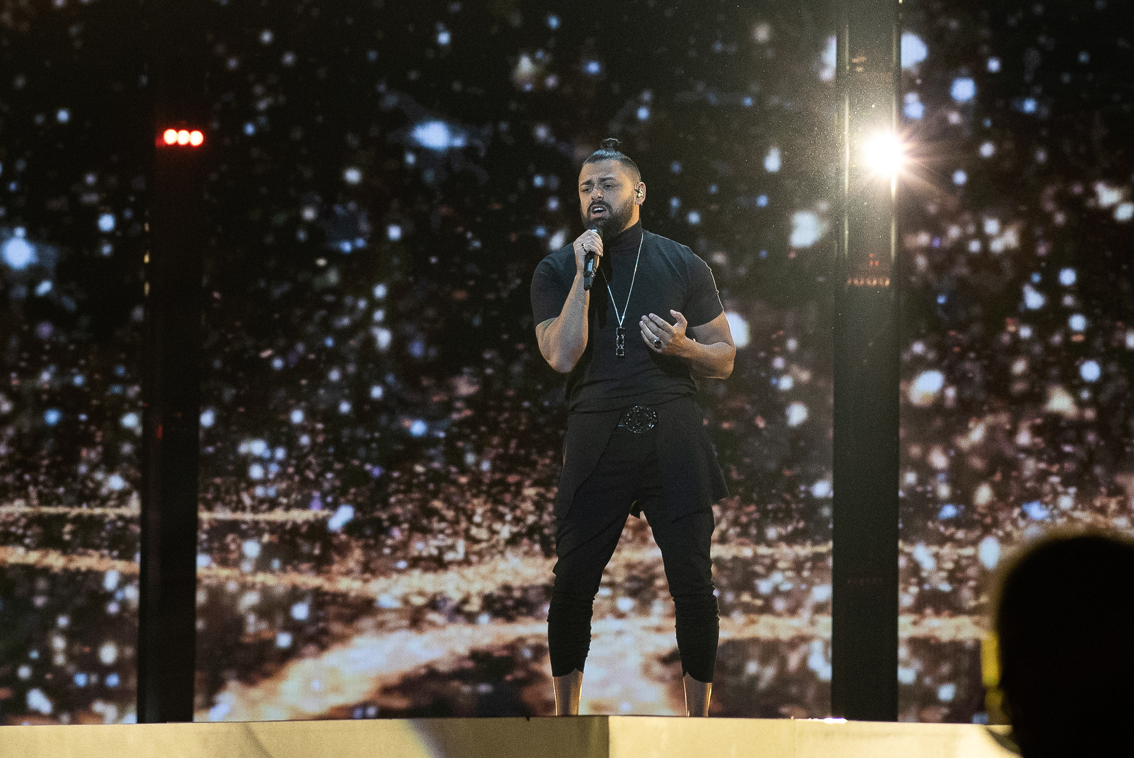 At the 2019 Eurovision Song Contest Semi-final 1 dress rehearsal